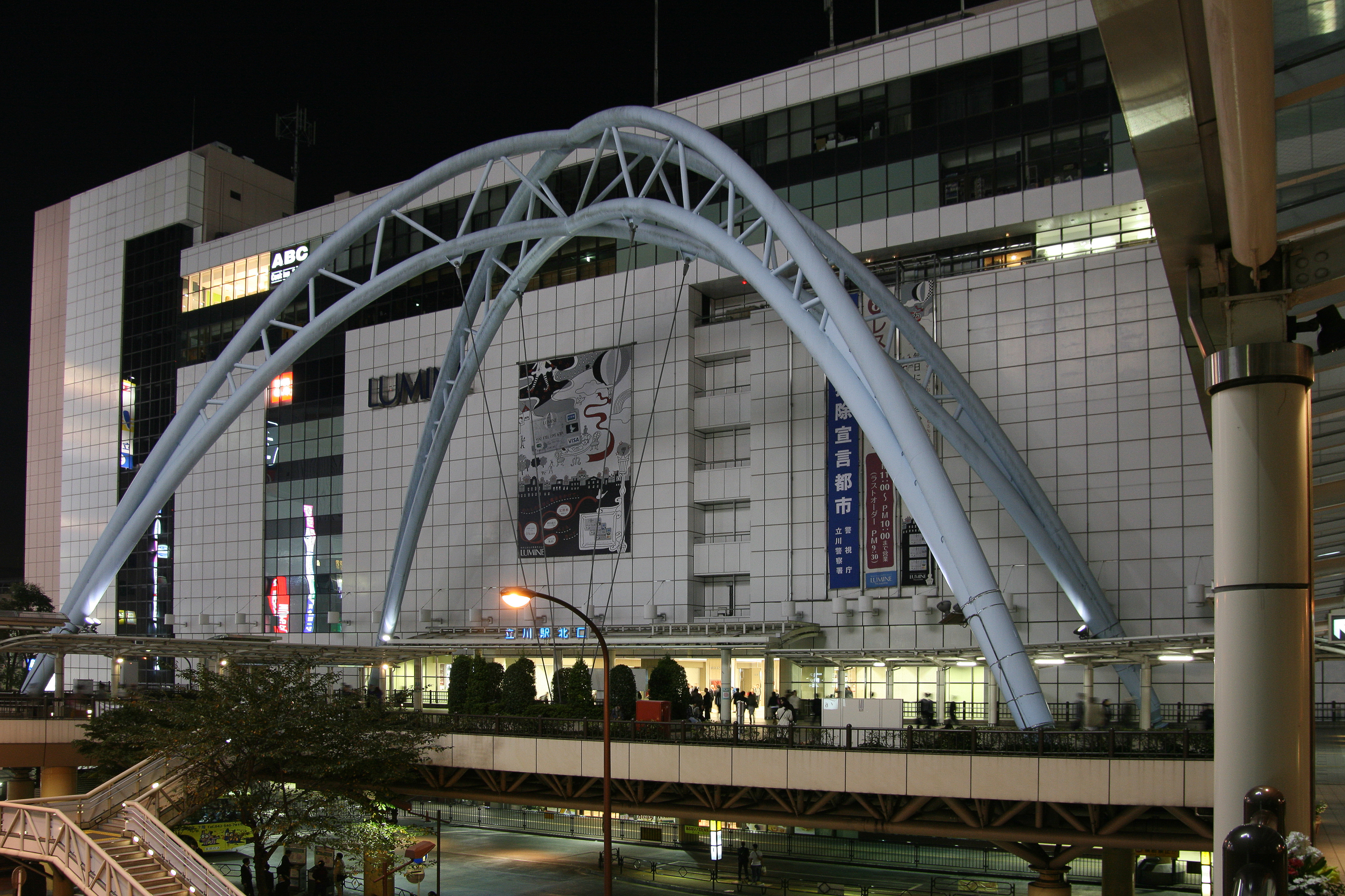 North exit of JR Tachikawa Station, Tokyo, Japan